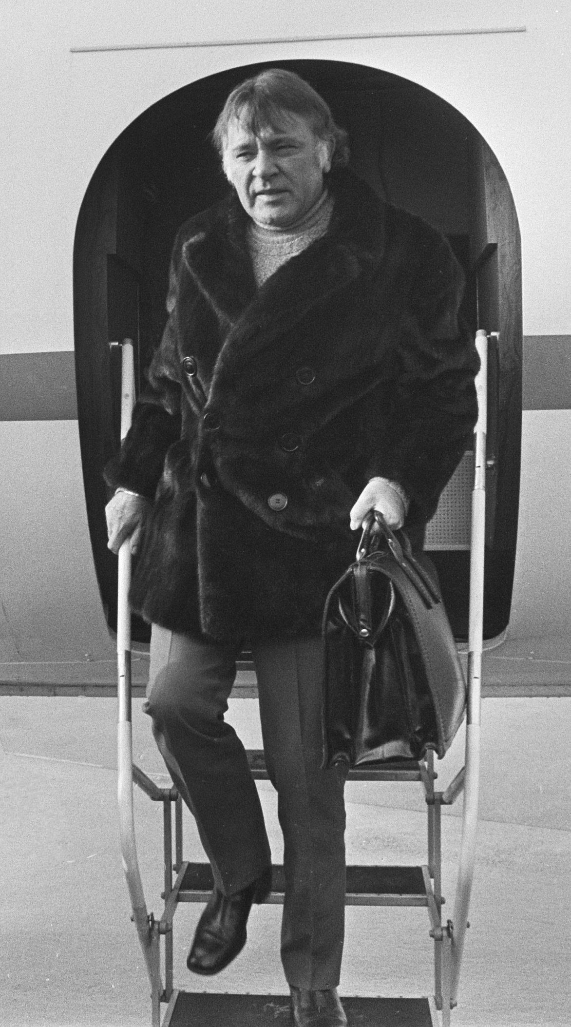 Richard Burton after landing at Schiphol